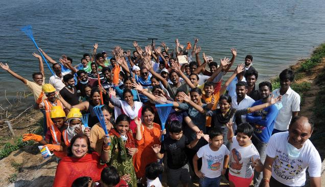 Residents of Perungudi who adopted the Lake for Protection